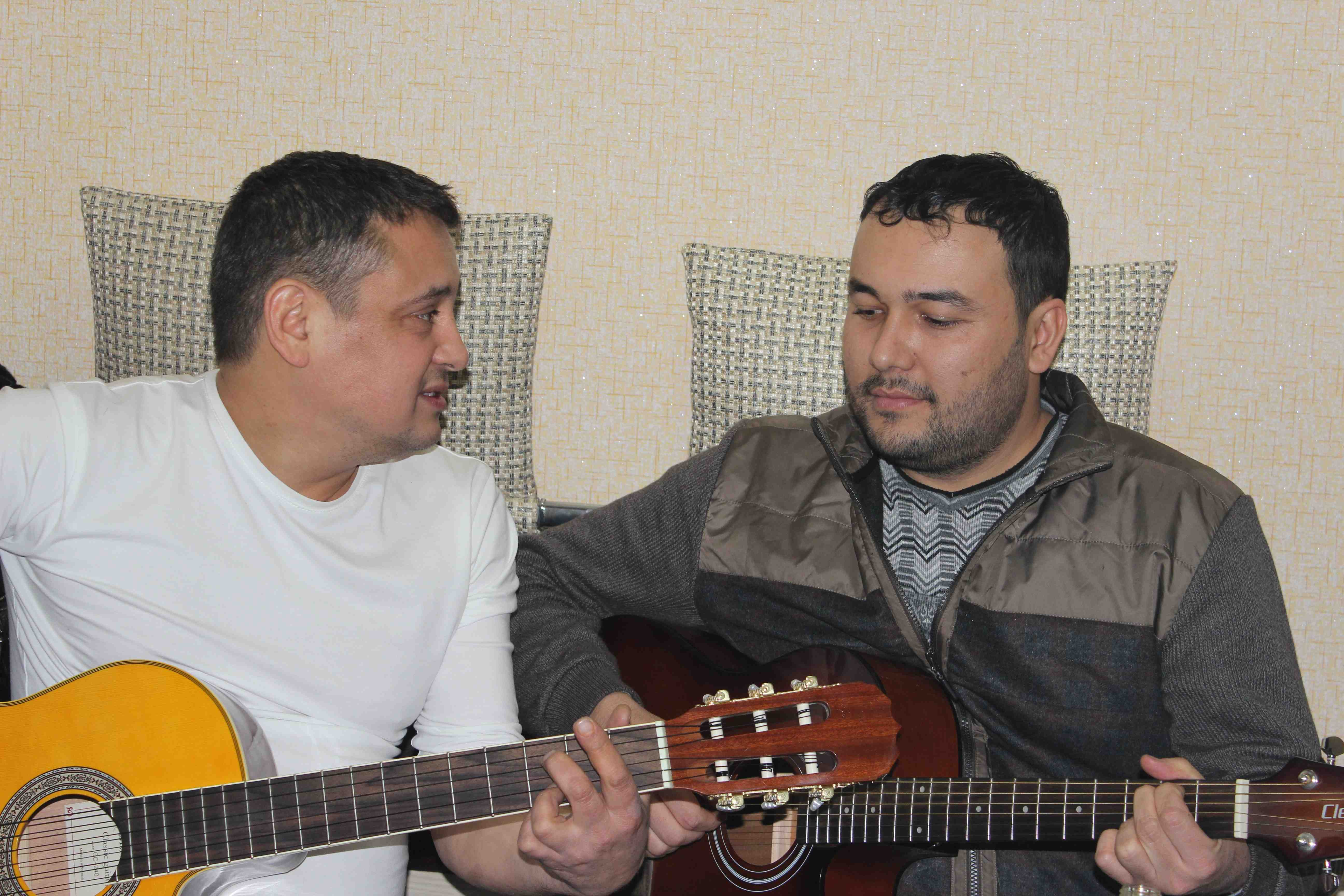 Tohir Sodiqov and Renat Sobirov in 2014